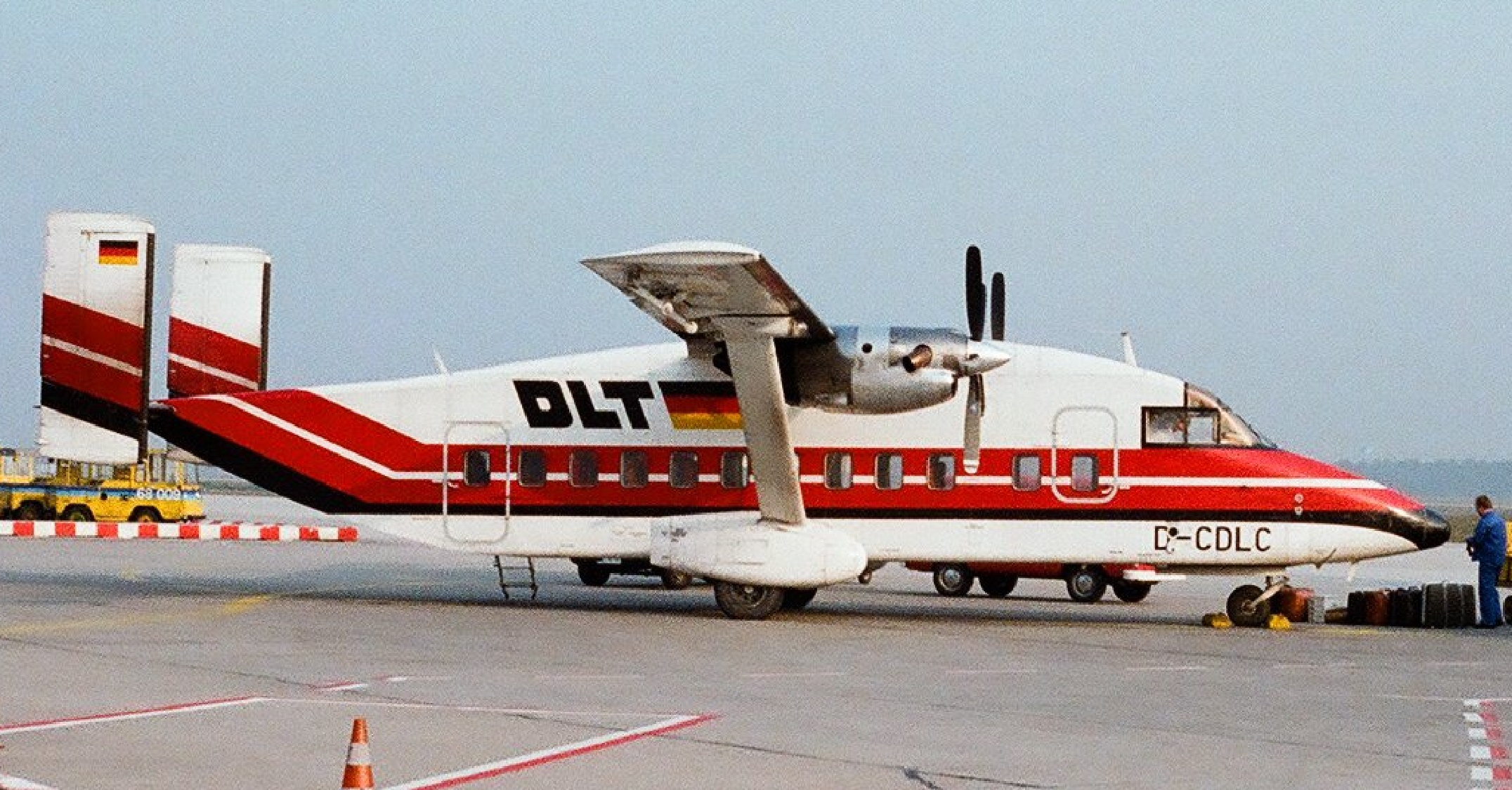 Short 330 D-CDLC of DLT Deutsche Luftverkehrsgesellschaft at Flughafen Frankfurt, 28.2.1983